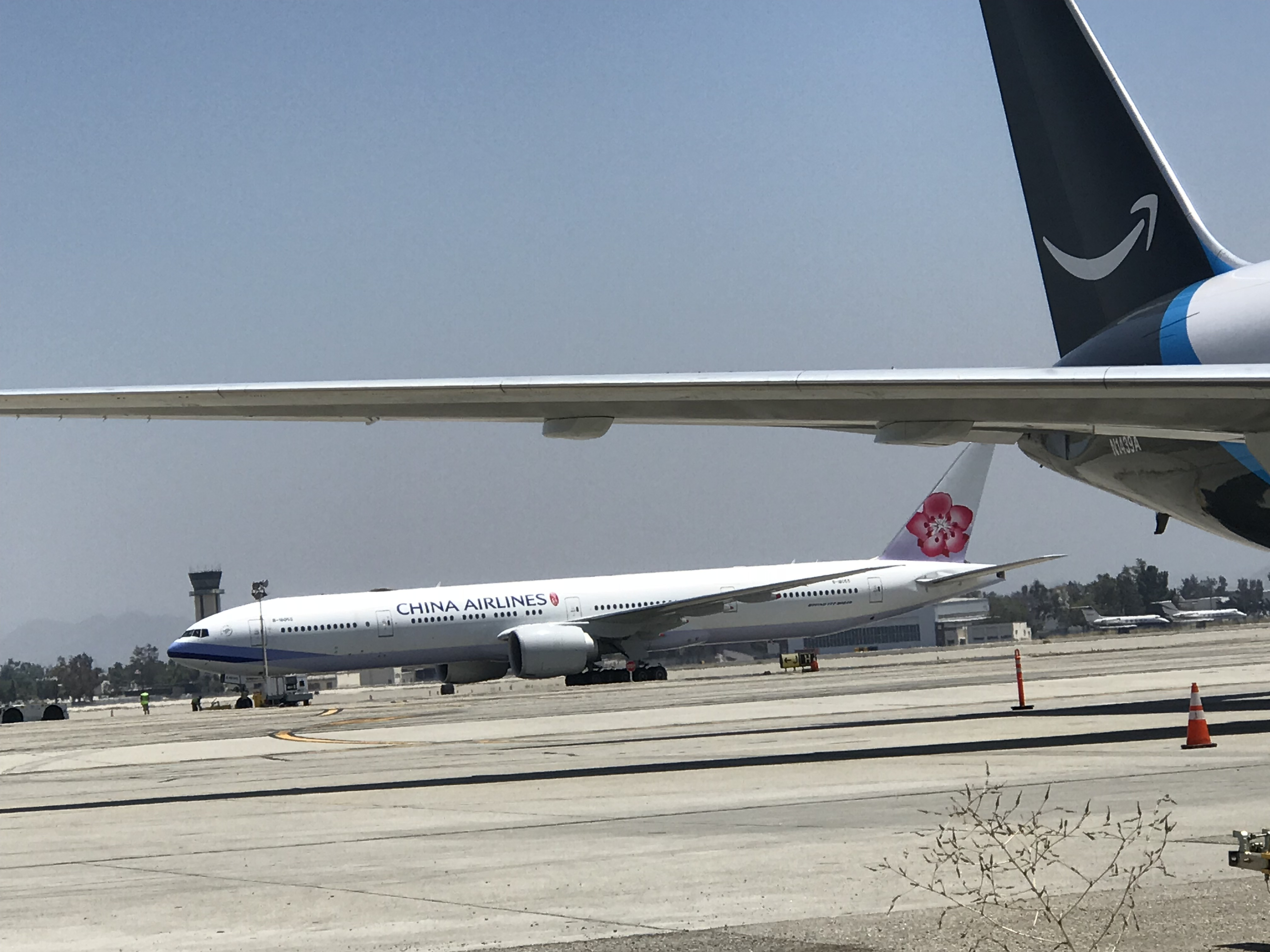 China Airlines Boeing777-300ER(B18055) Arrive Ontario Airport